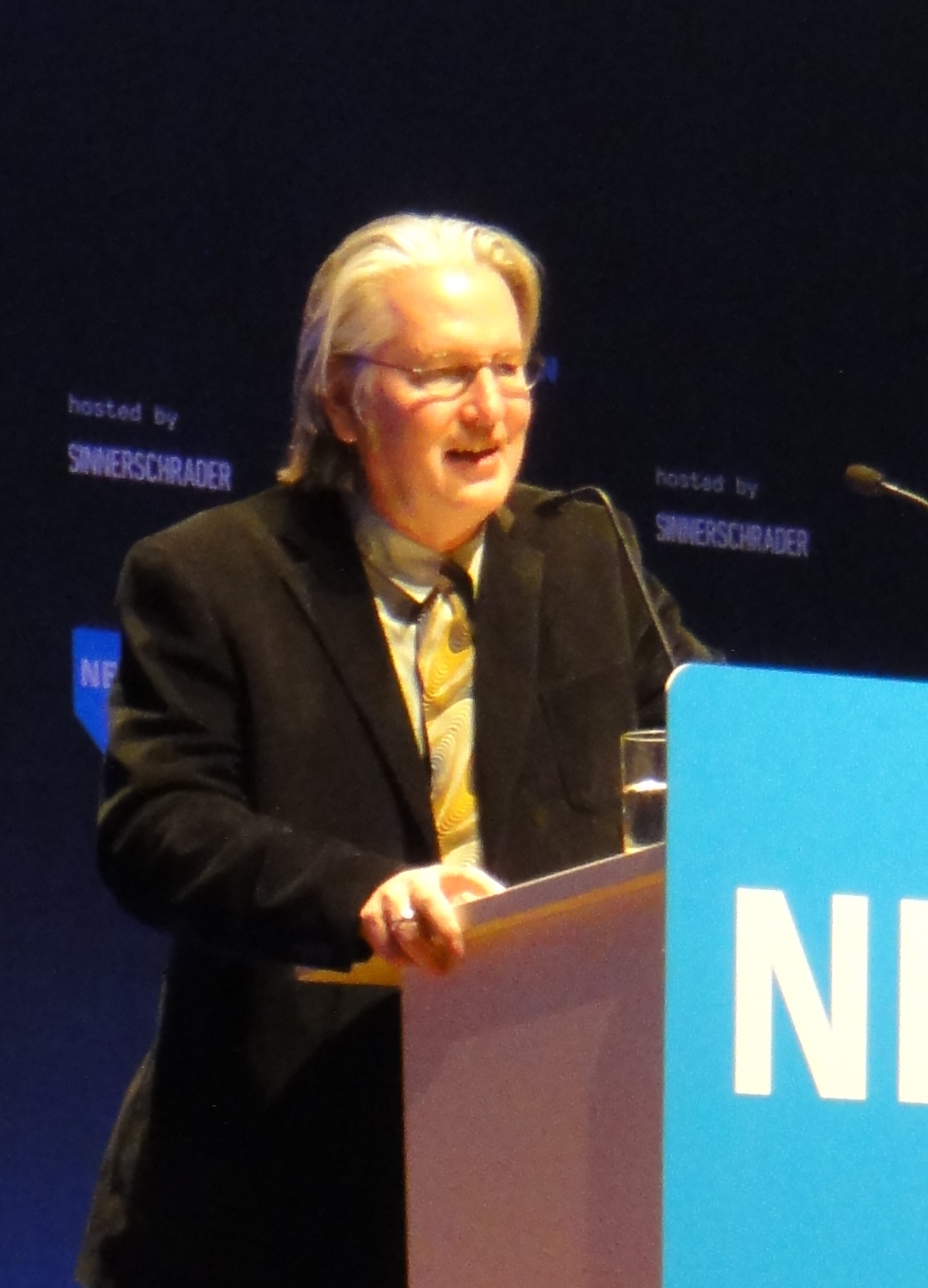 Bruce Sterlin speaking at "NEXT Berlin" conference